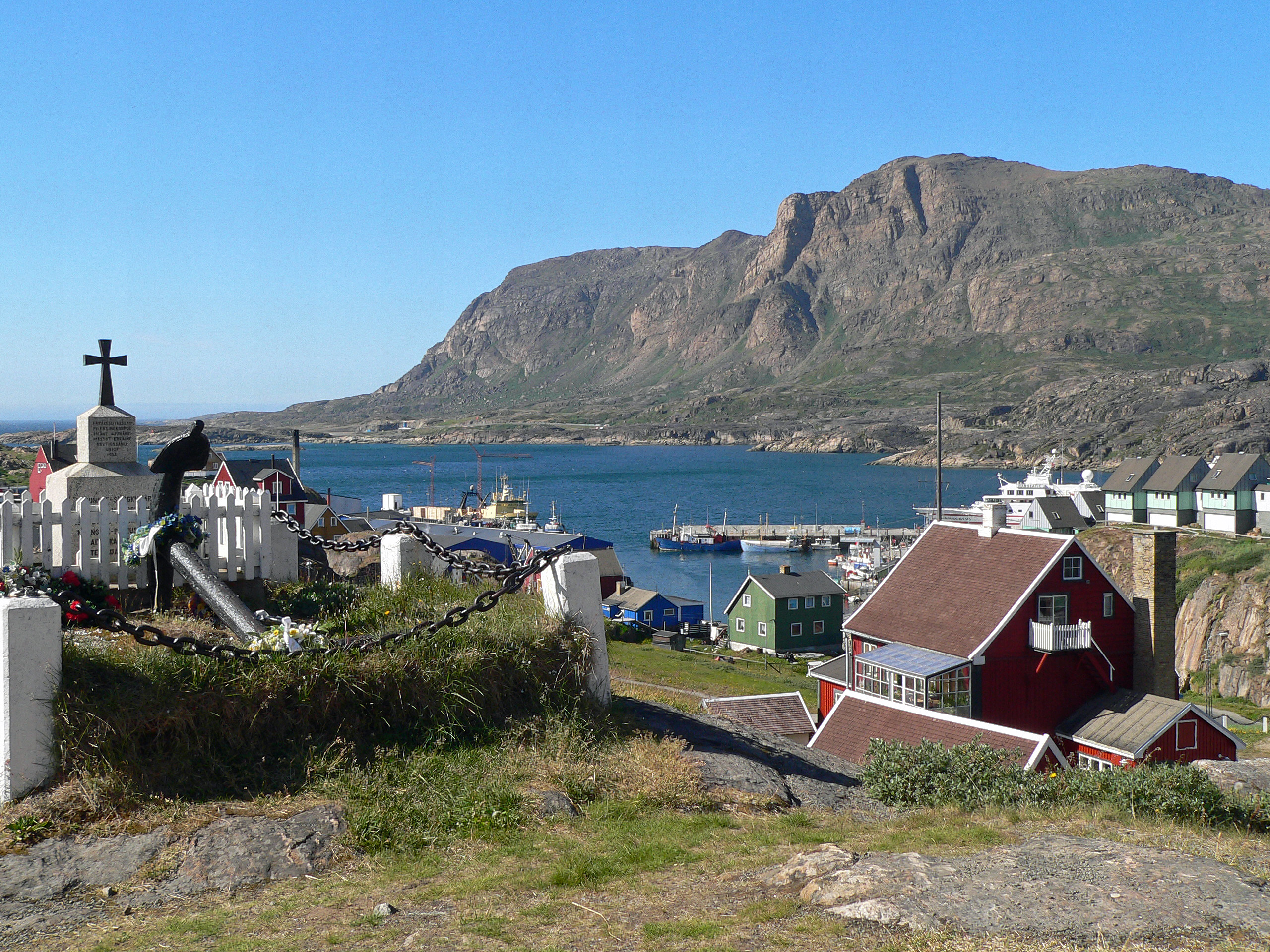 Sisimiut - View fron the new church to the harbour